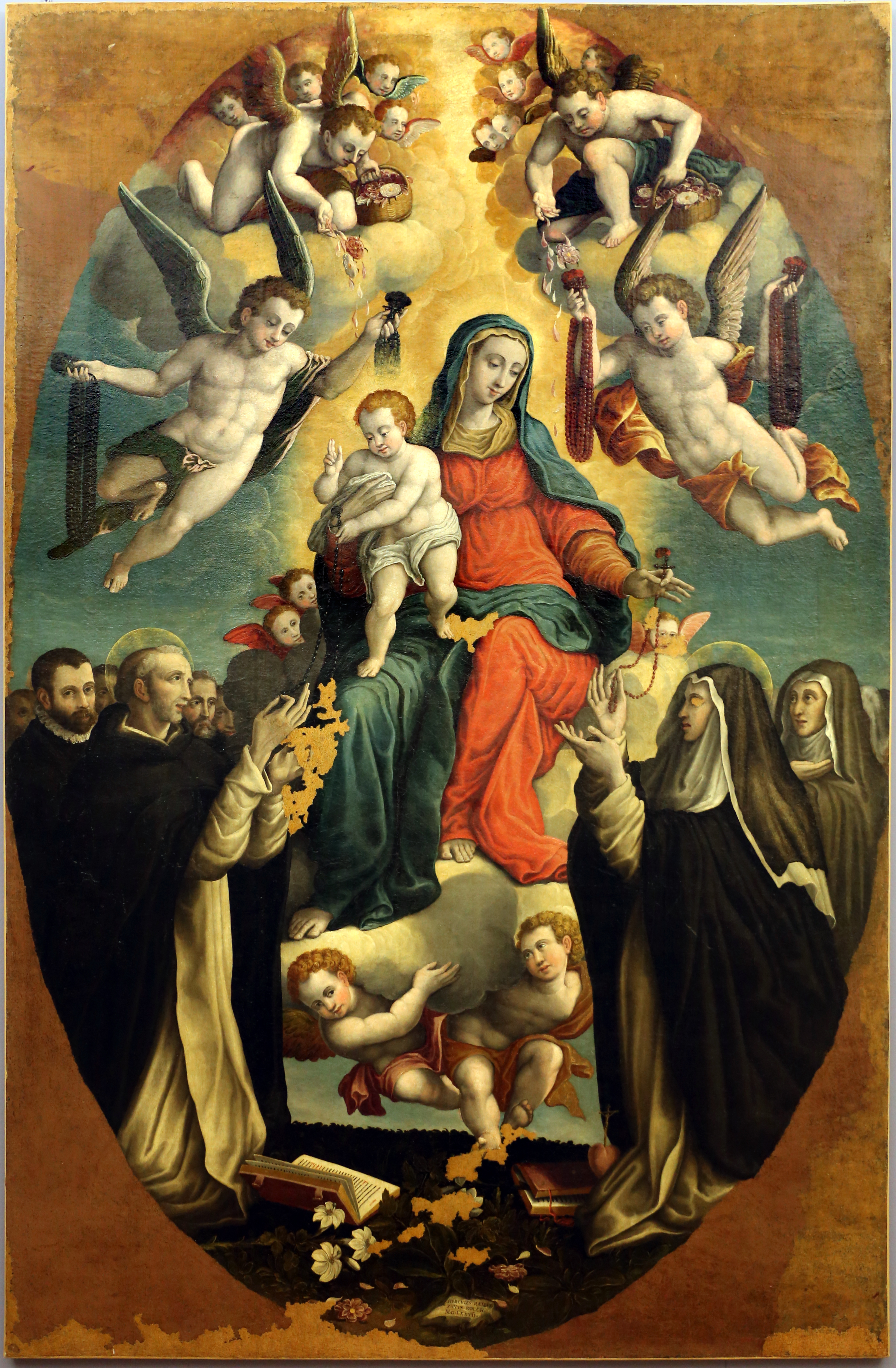 Pinacoteca Diocesana (Senigallia)